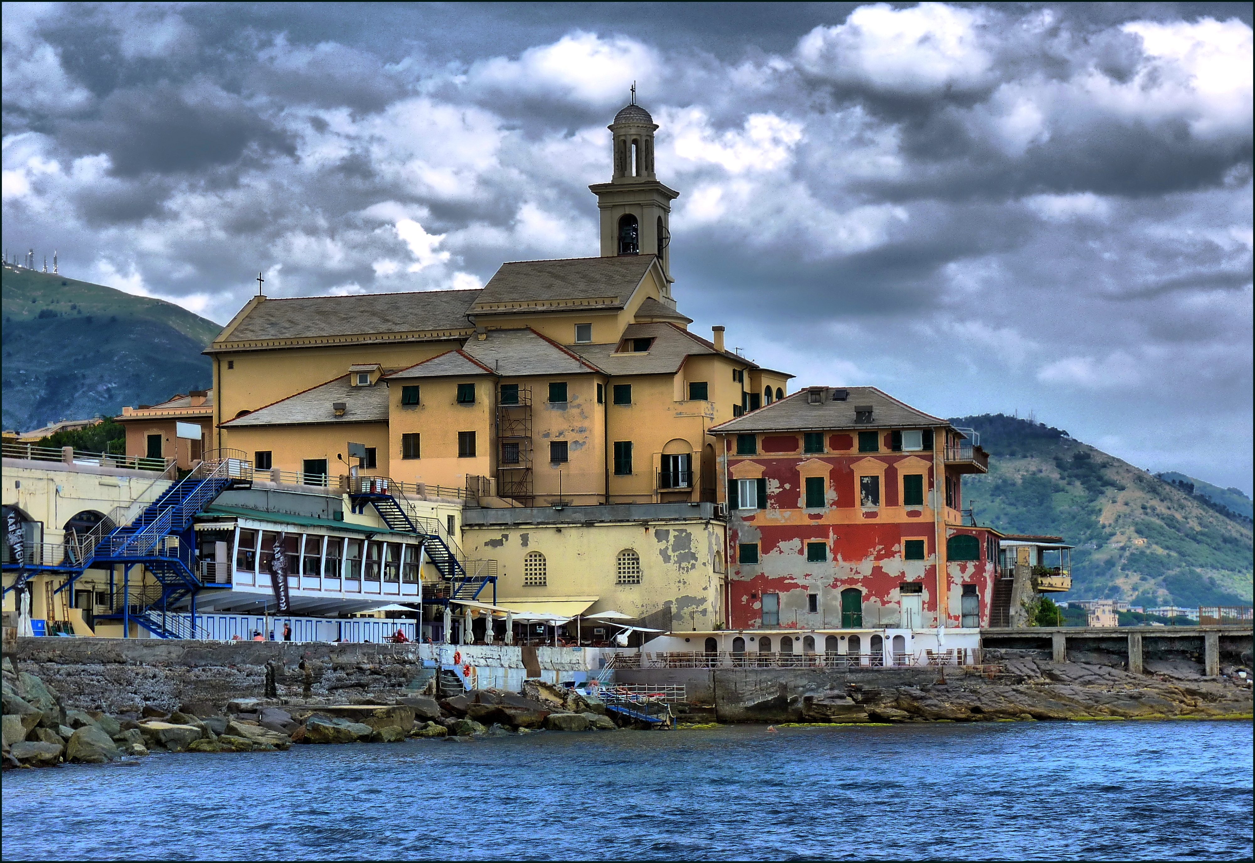 S.Antonio a Boccadasse - marine corrosion on the church